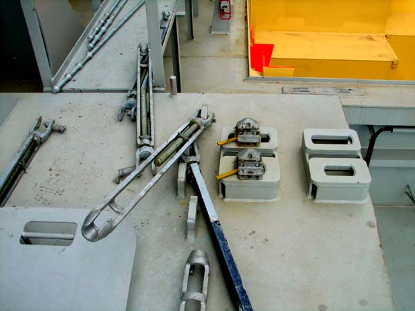 A manual twistlock, used to attach containers on a container ship.